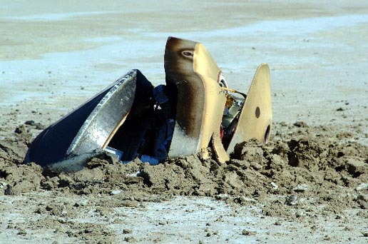 Genesis on the Ground — The impact of the Genesis sample return capsule occurred near Granite Peak on a remote portion of the Utah Test and Training Range.